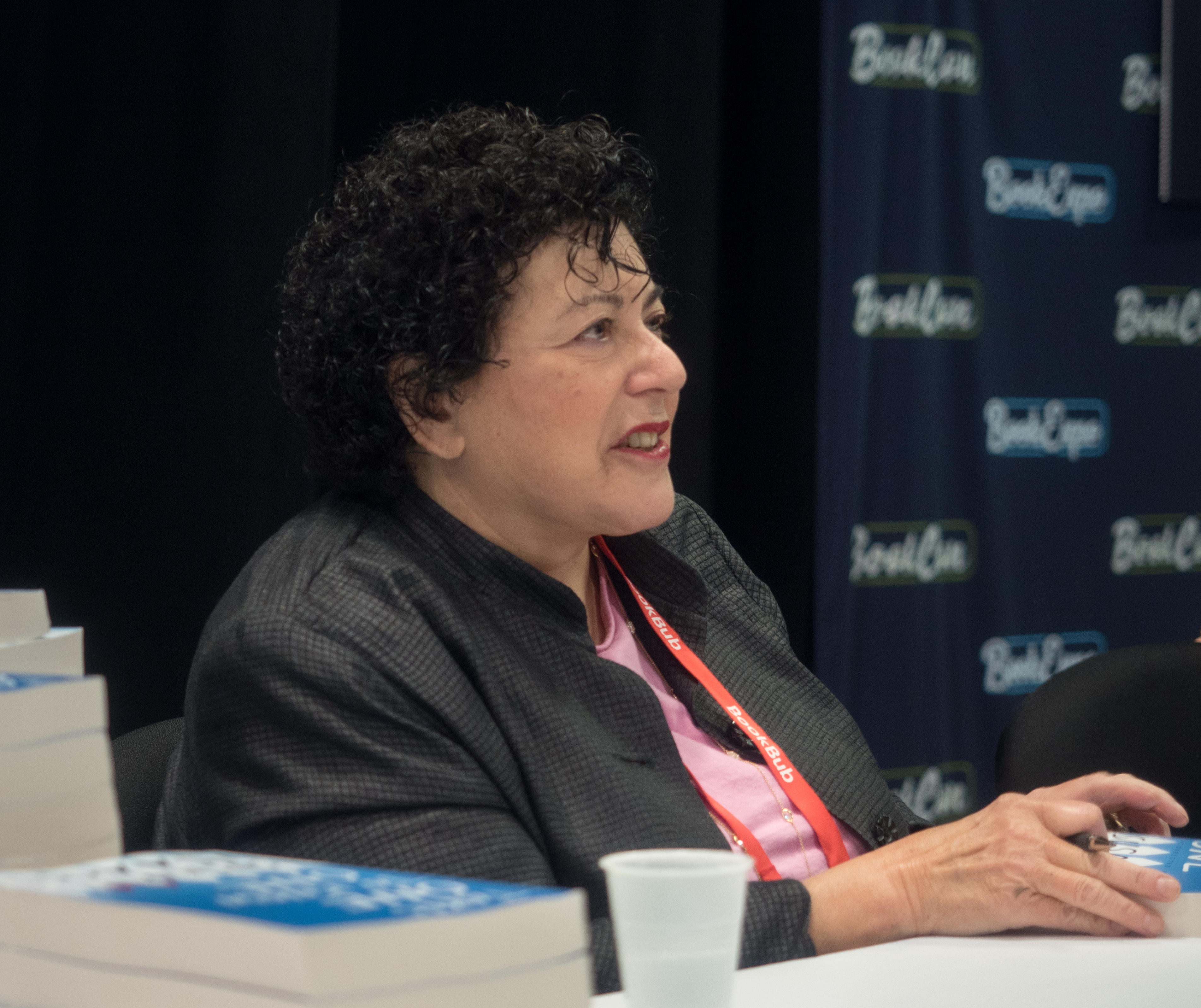 Susan Isaacs at BookExpo at the Javits Center in New York City, May 2019.